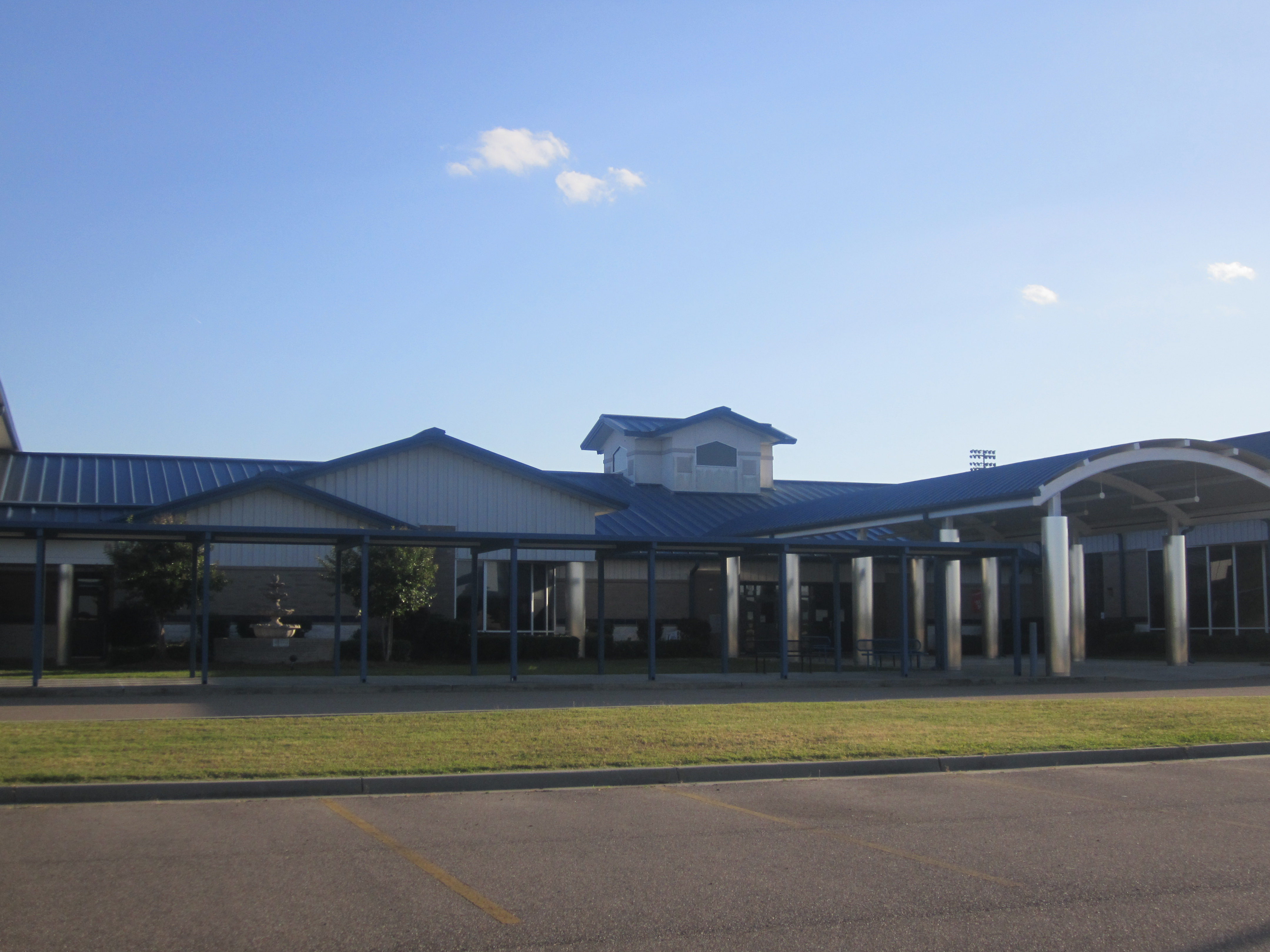 I took photo of Sterlington High School with Canon camera.